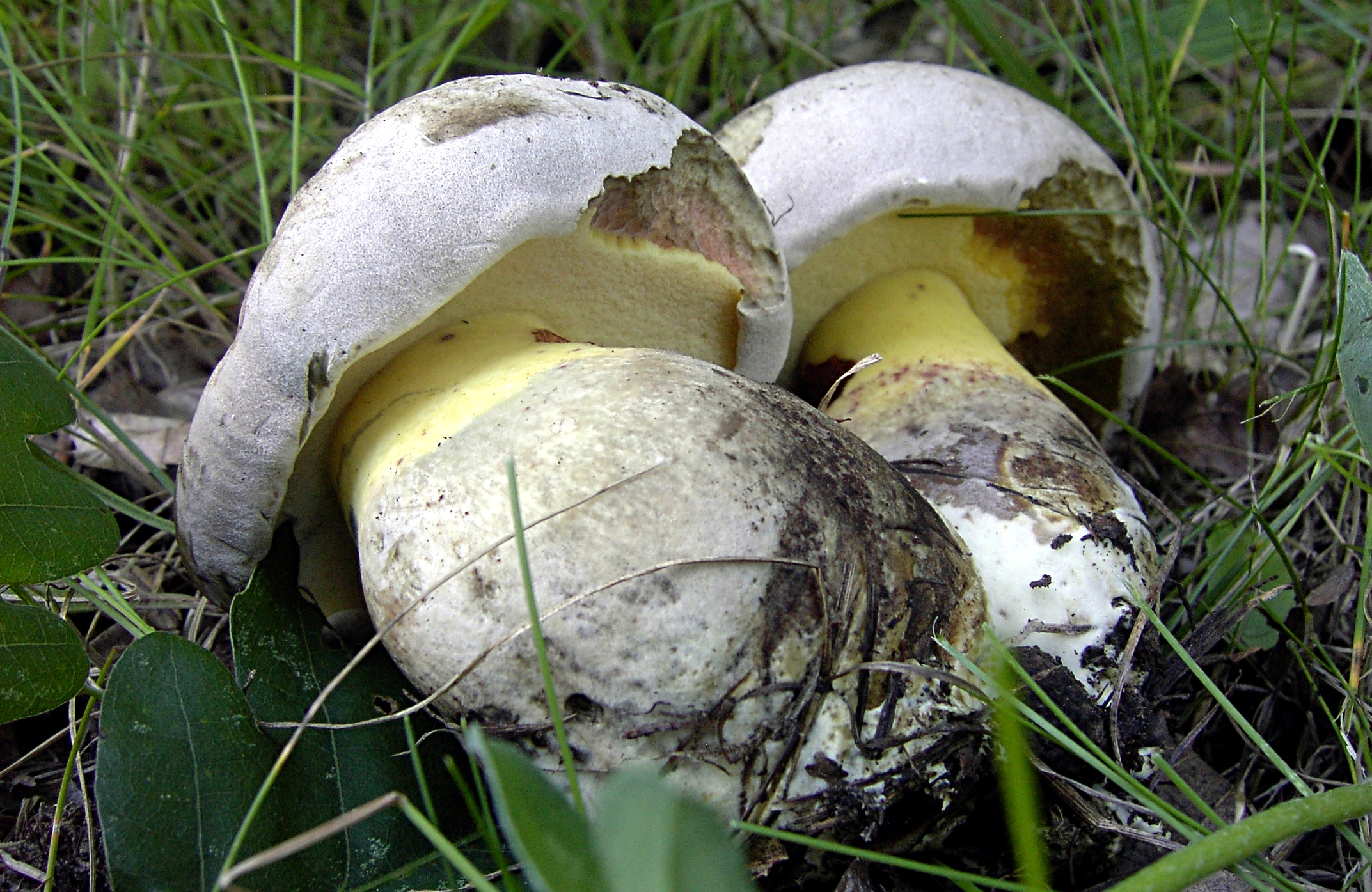 Boletus radicans: Under oaks at the outskirt of the forest; taste bitter; height: about 280m above sea level